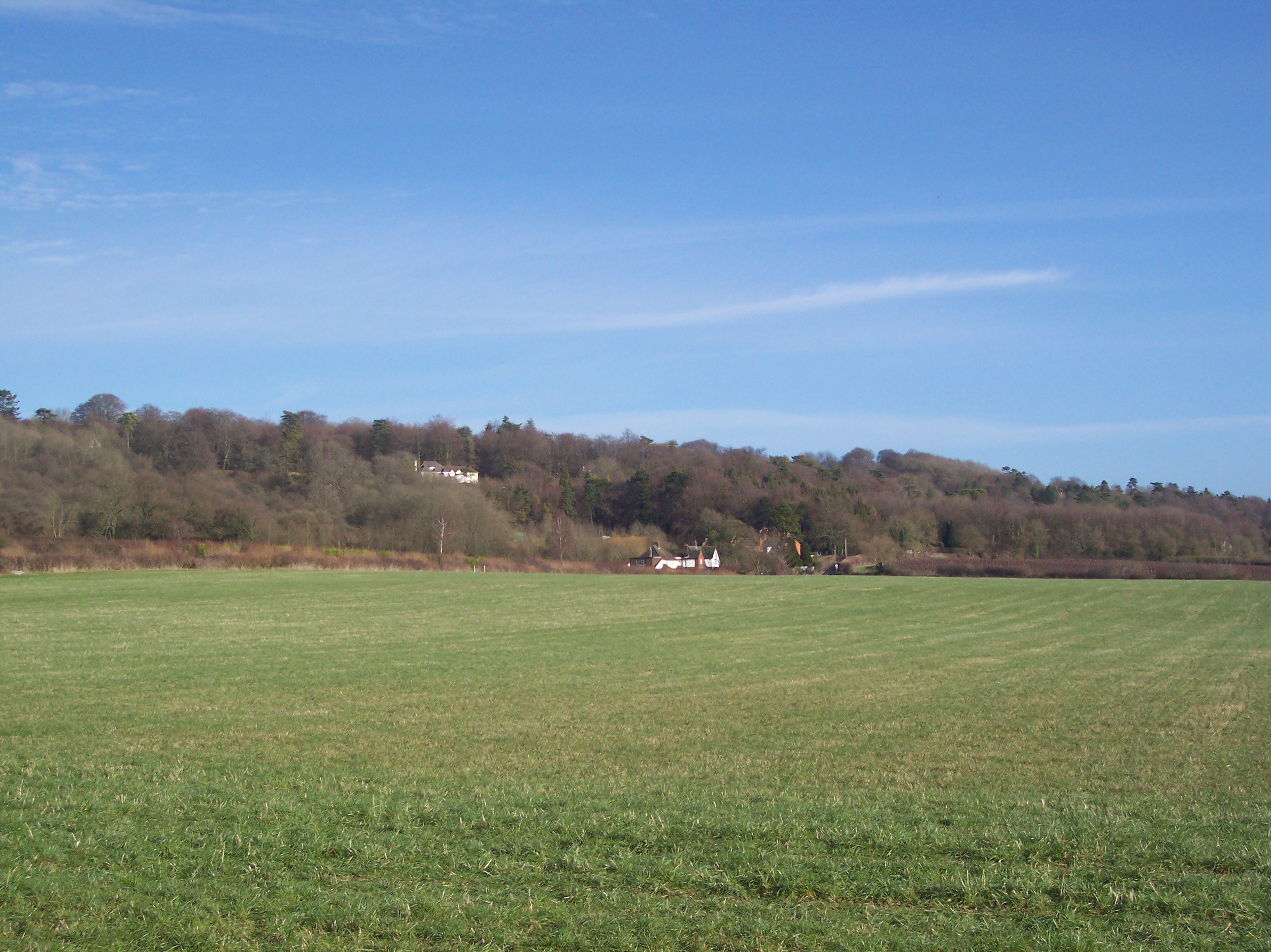 View of Betsom's Hill from Rowtye Wood byway